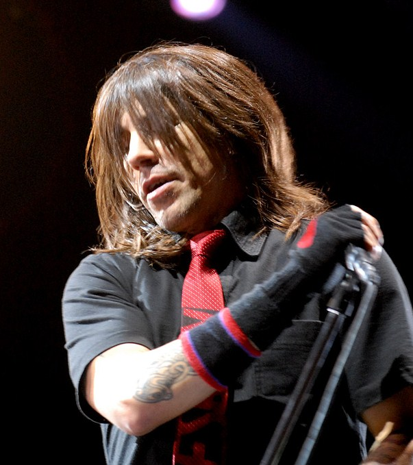 Anthony Kiedis performing on July 29, 2006.